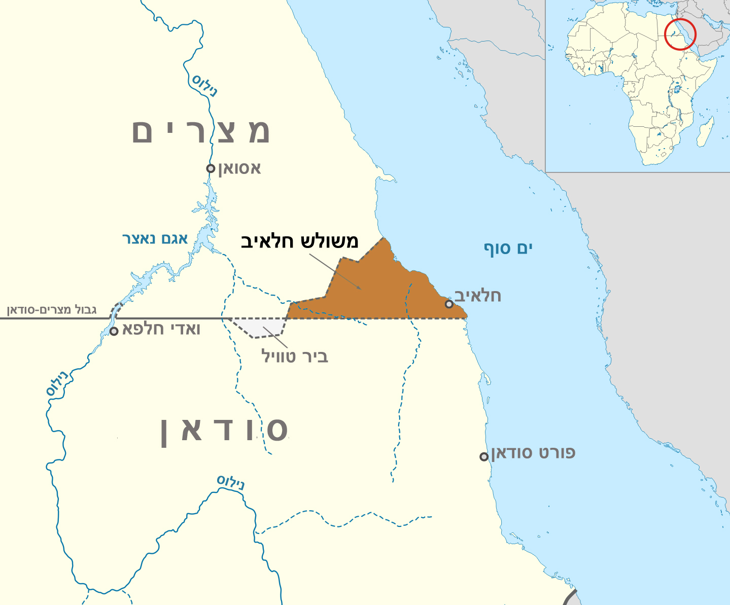 Map of Halaib Triangle between Egypt and Sudan